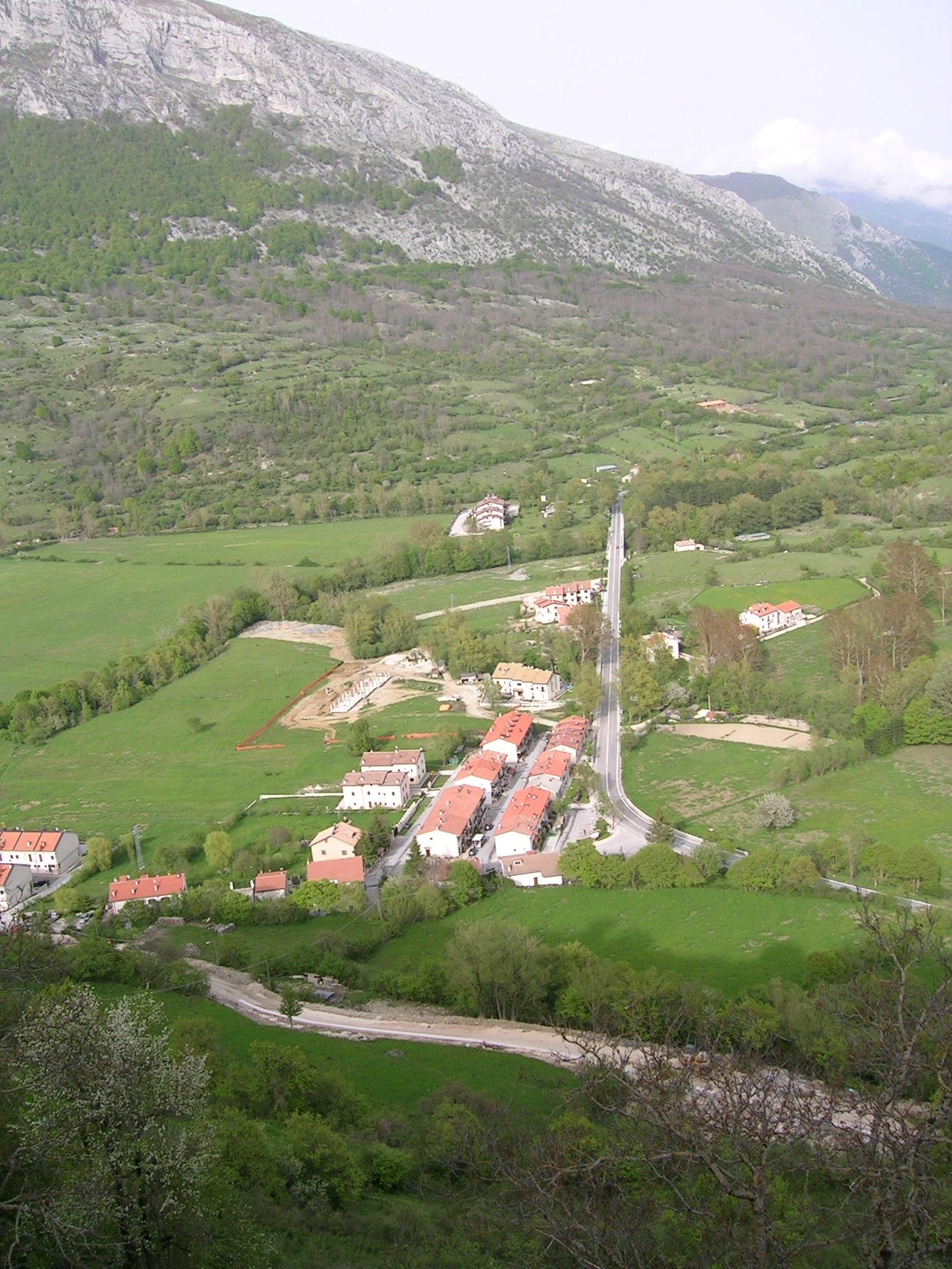 view from historic center of Opi in direction of the national park's integral reserve